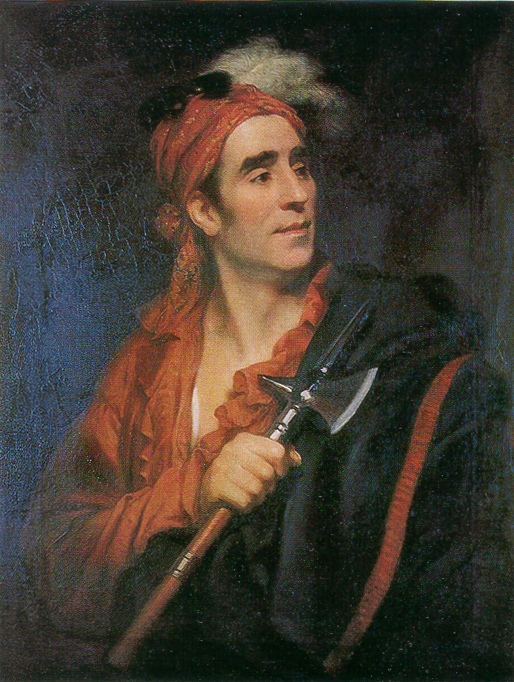 Teyoninhokovrawen John Norton